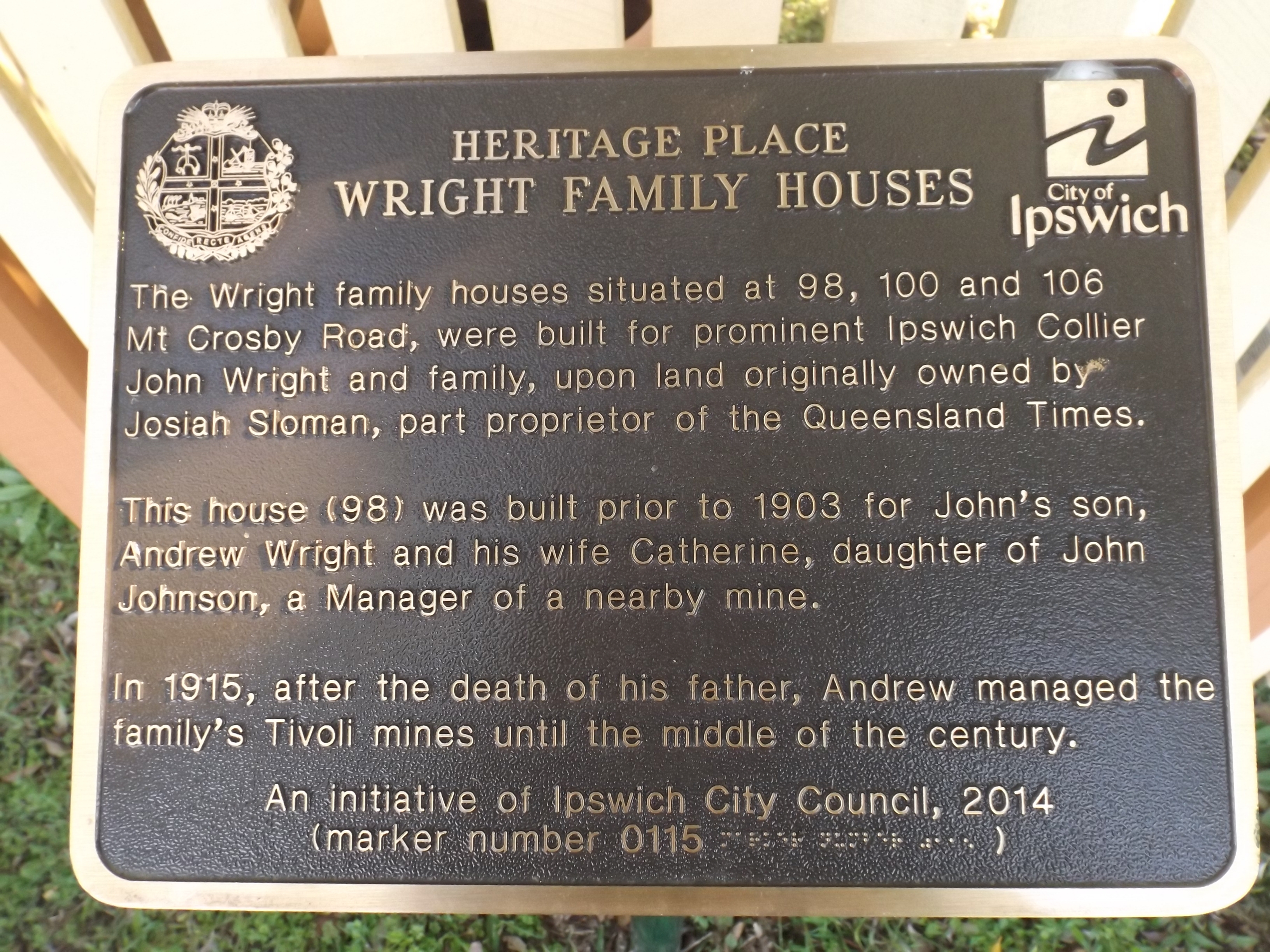 Photo of a plaque at the Wright Family Houses at 98 Mt Crosby Road Tivoli, Ipswich Queensland, Australia.